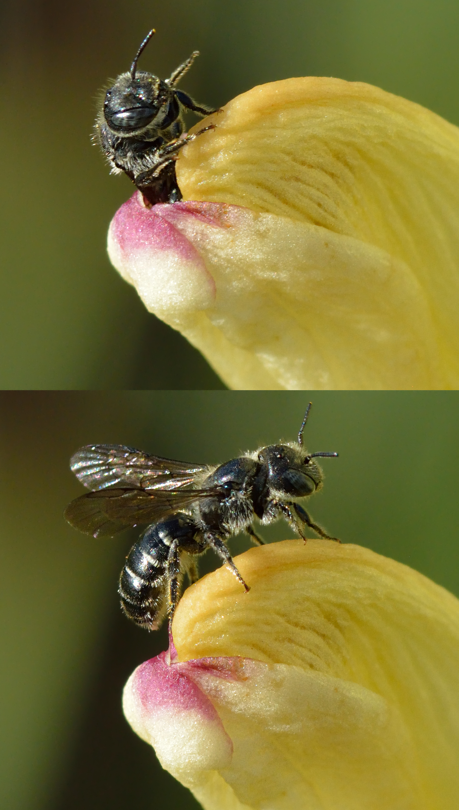 Solitary bee Chelostoma rapunculi (female) is pollinating moor-king lousewort (Pedicularis sceptrum-carolinum). Niitvälja bog, Northwestern Estonia.